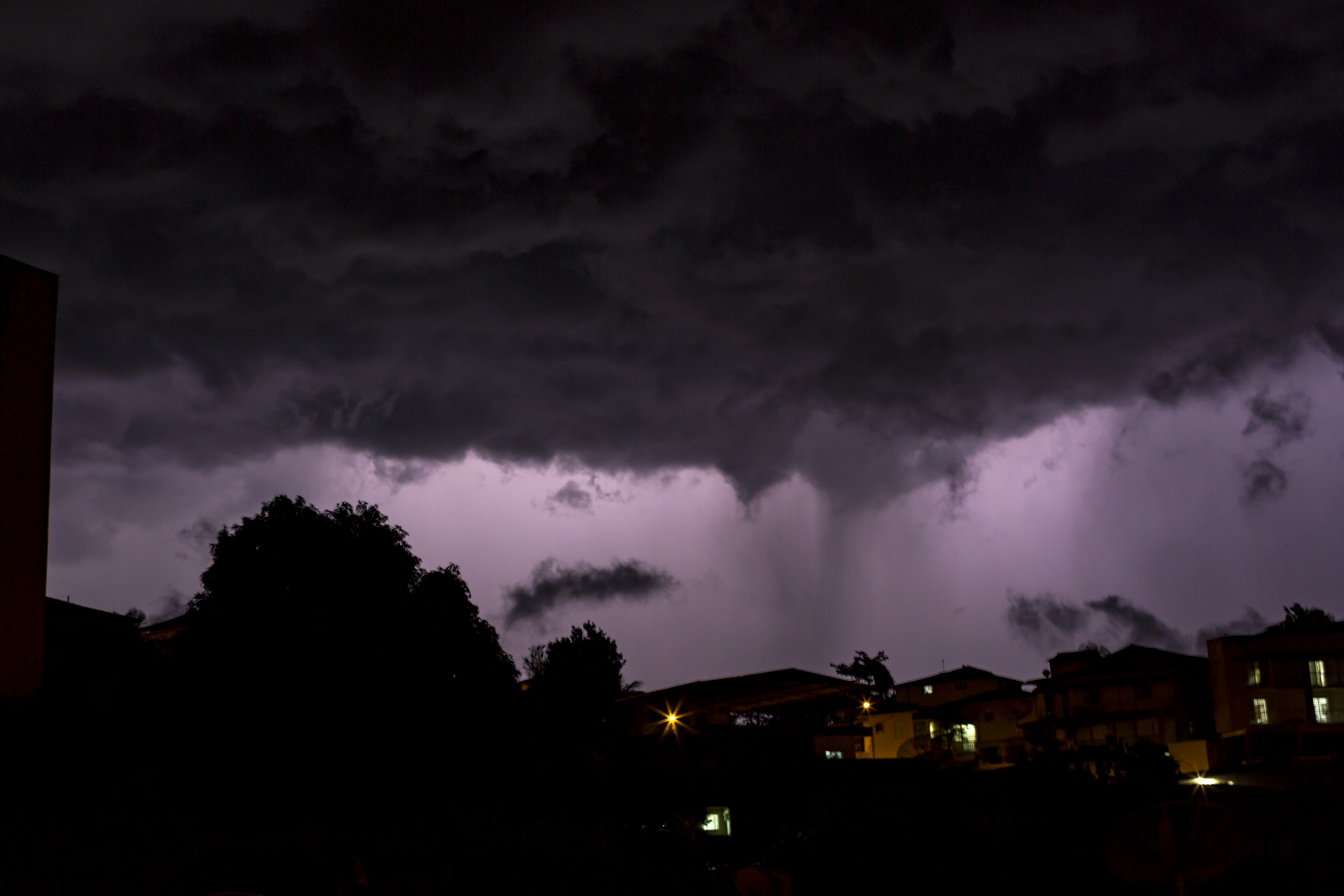 A night thunderstorm in João Monlevade, Minas Gerais, Brazil.